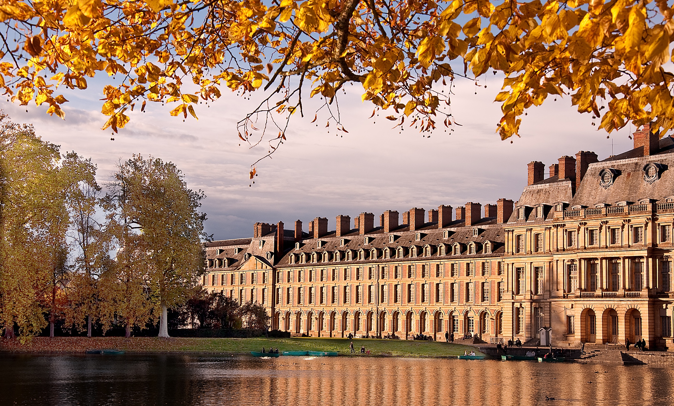 Palace of Fontainebleau